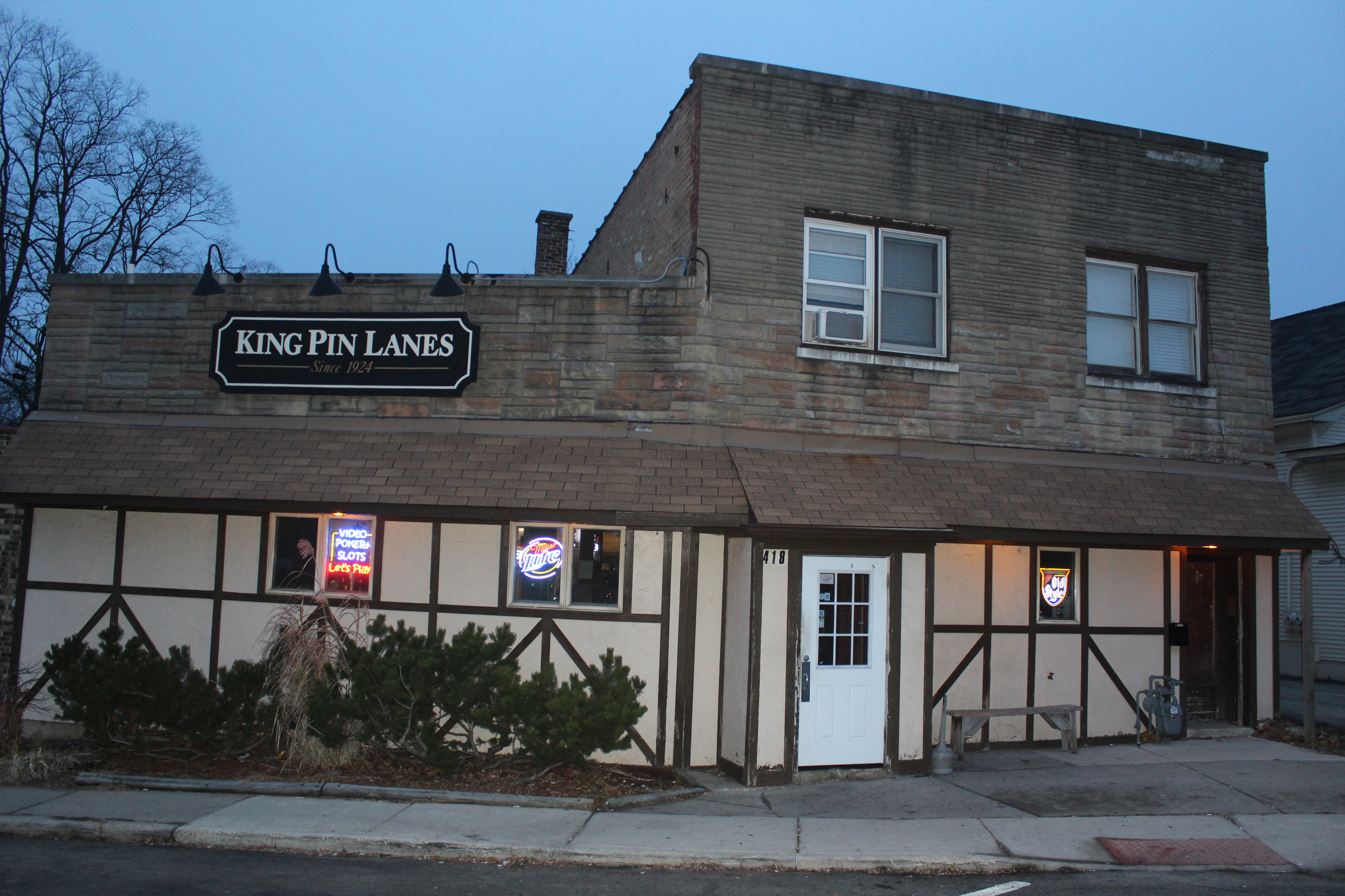 King Pin Lanes in Fox River Grove, Illinois. Taken December 2019.